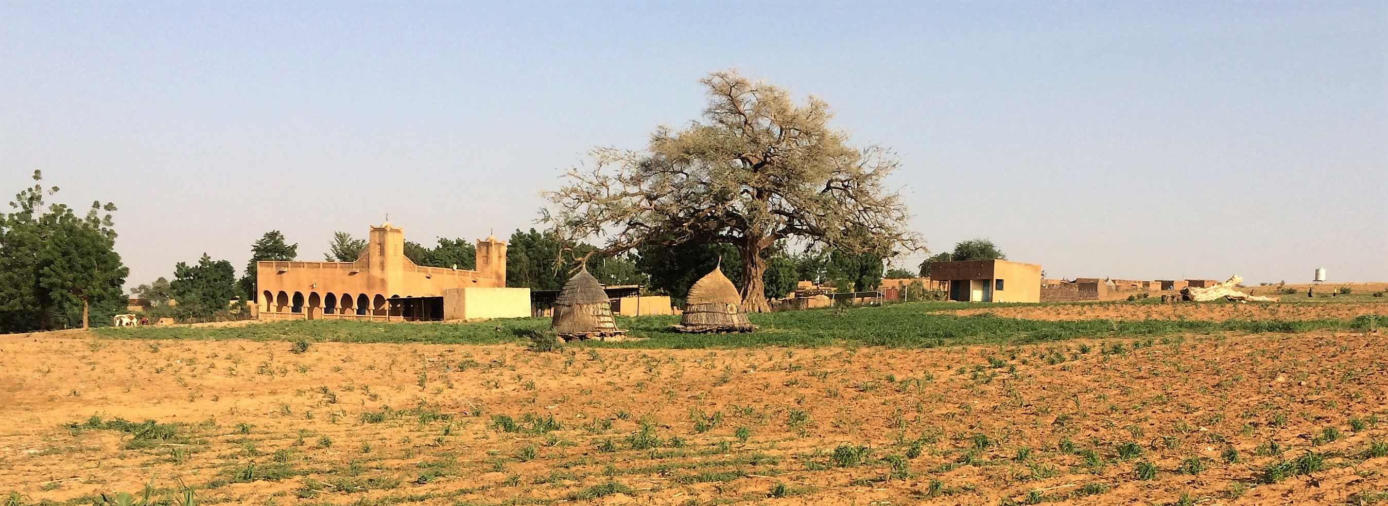 The mosque of Sarando Béné in Niger (Tillabéri regon, Kollo Department, Bitinkodji commune).